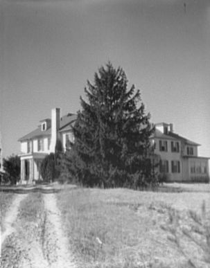 Photograph of Mount Eagle plantation house, in Fairfax County Virginia. Once home of Bryan Fairfax, now demolished.